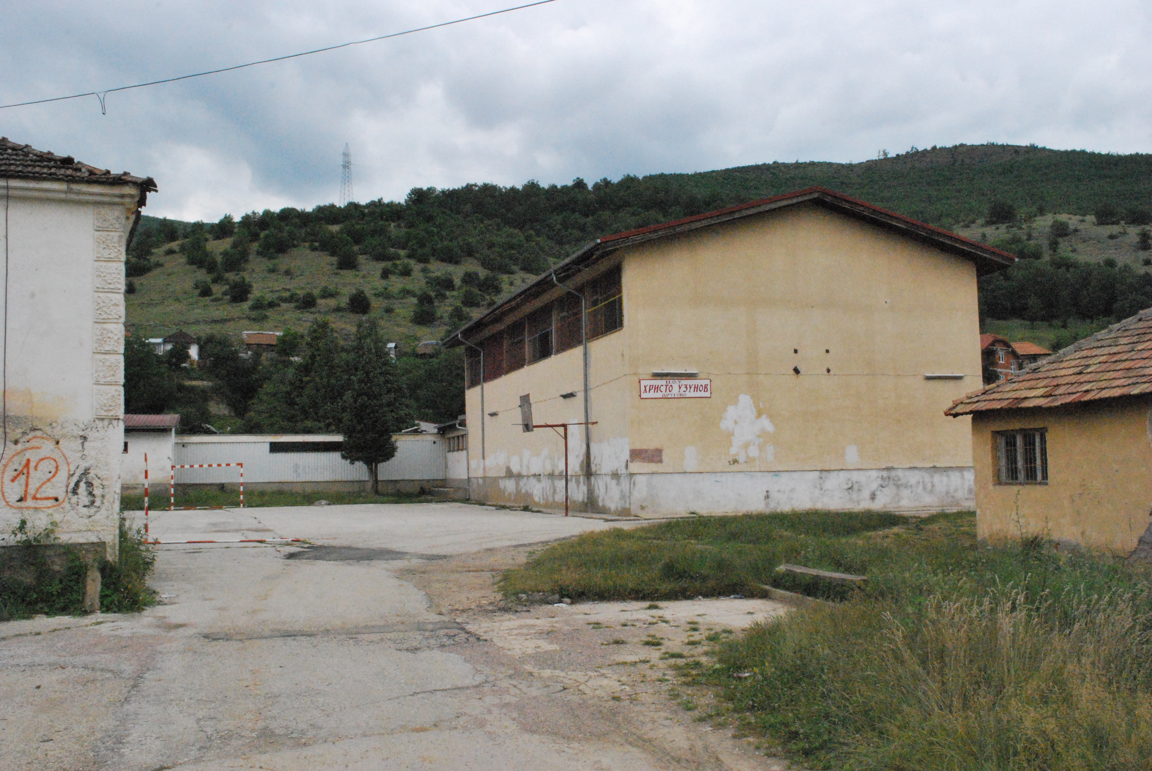 School in Drugovo, Macedonia